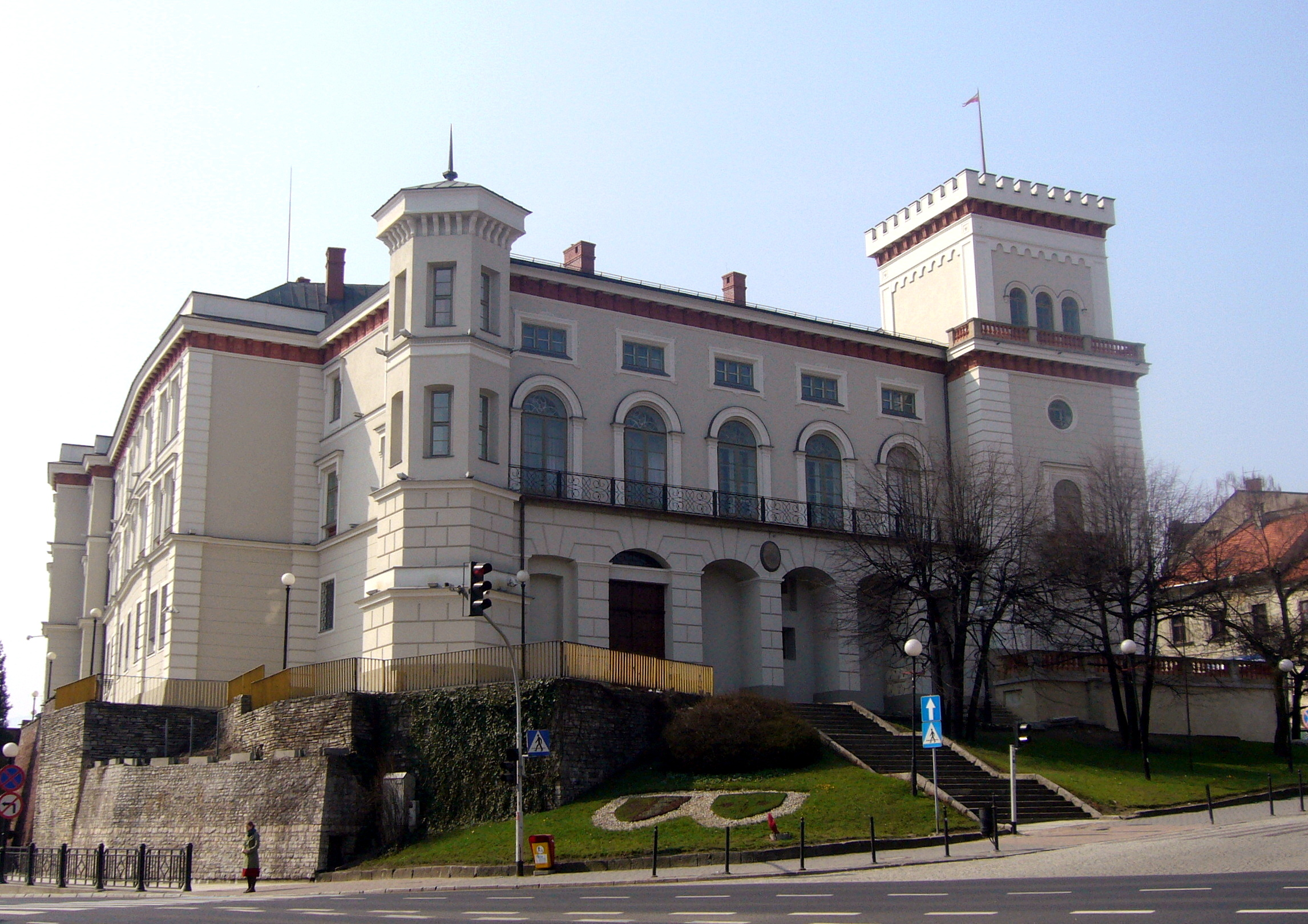 Sułkowski Castle in Bielsko-Biała.